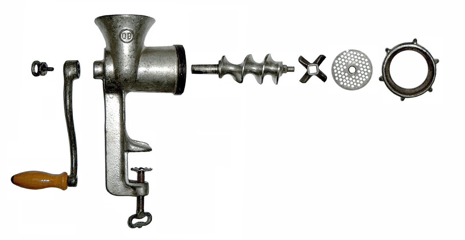 Old mincer (Fleischwolf), disassembled. Photo taken by user:Kku. Modified by user:Rainer Zenz